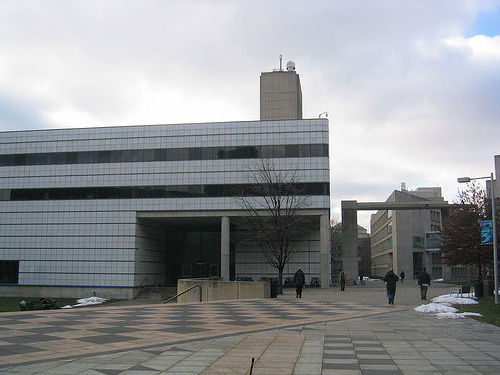 download from : MIT Media Lab in Cambridge (Massachusetts)